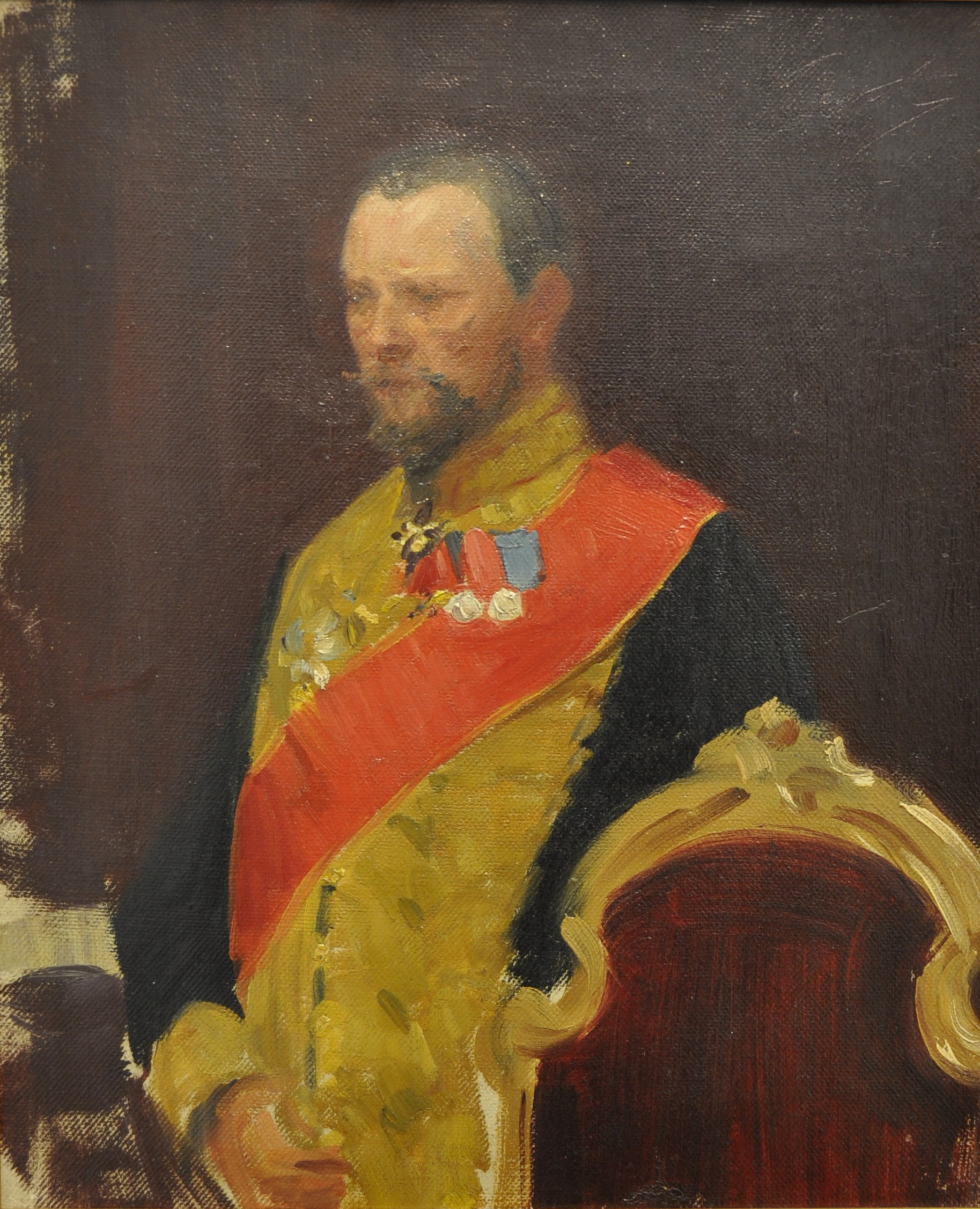 Ivan Kulikov. Portrait of Sergey Rukhlov, minister of transport. Study for the picture Formal Session of the State Council. Oil on canvas.